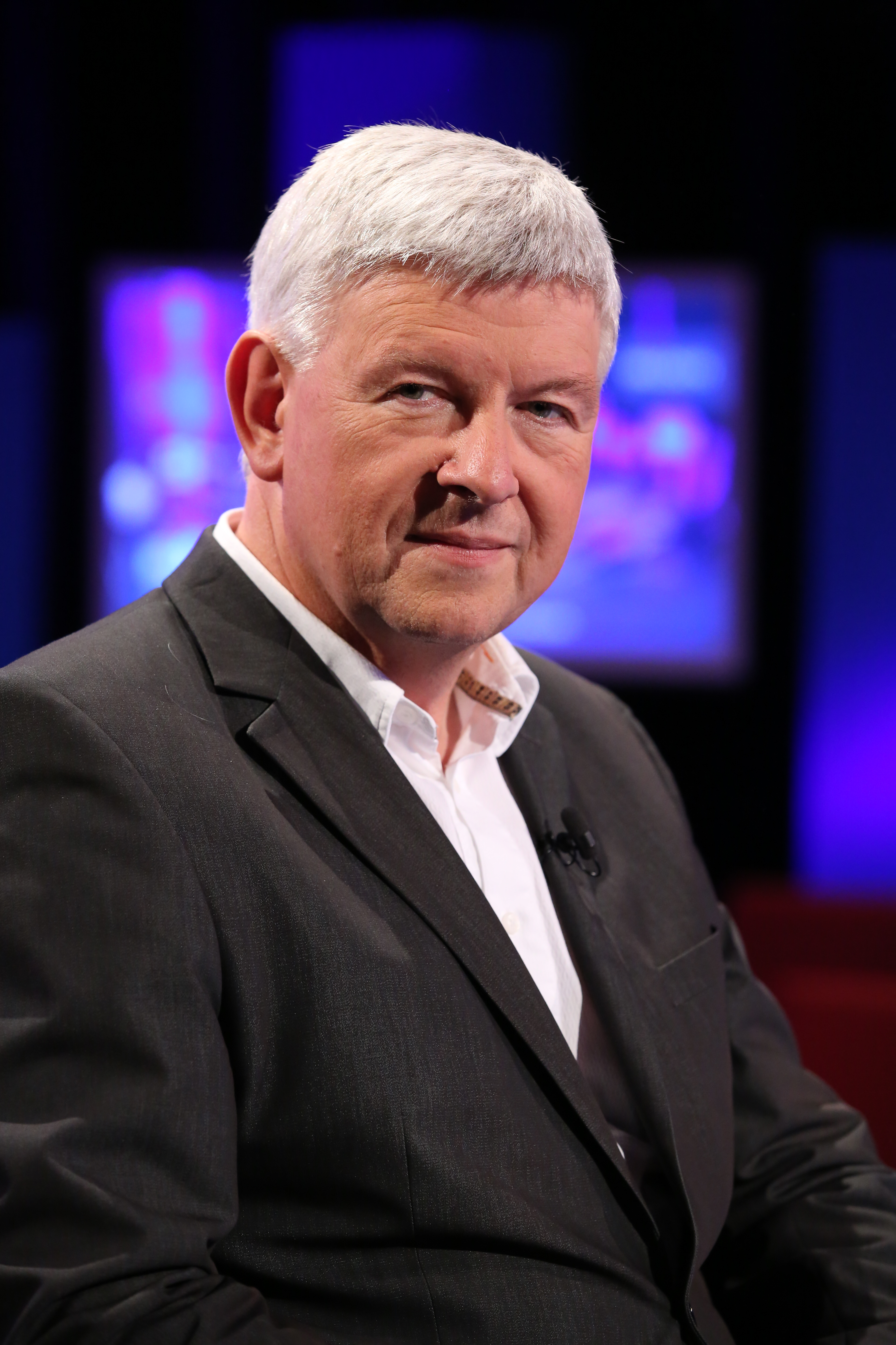 Peter Thuy (rector of the IUBH University of Applied Sciences) at the 34th Bonn Economic Forum (Bonner Wirtschaftstalk), Kunst- und Ausstellungshalle der Bundesrepublik Deutschland (Federal Art and Exhibition Hall), Bonn